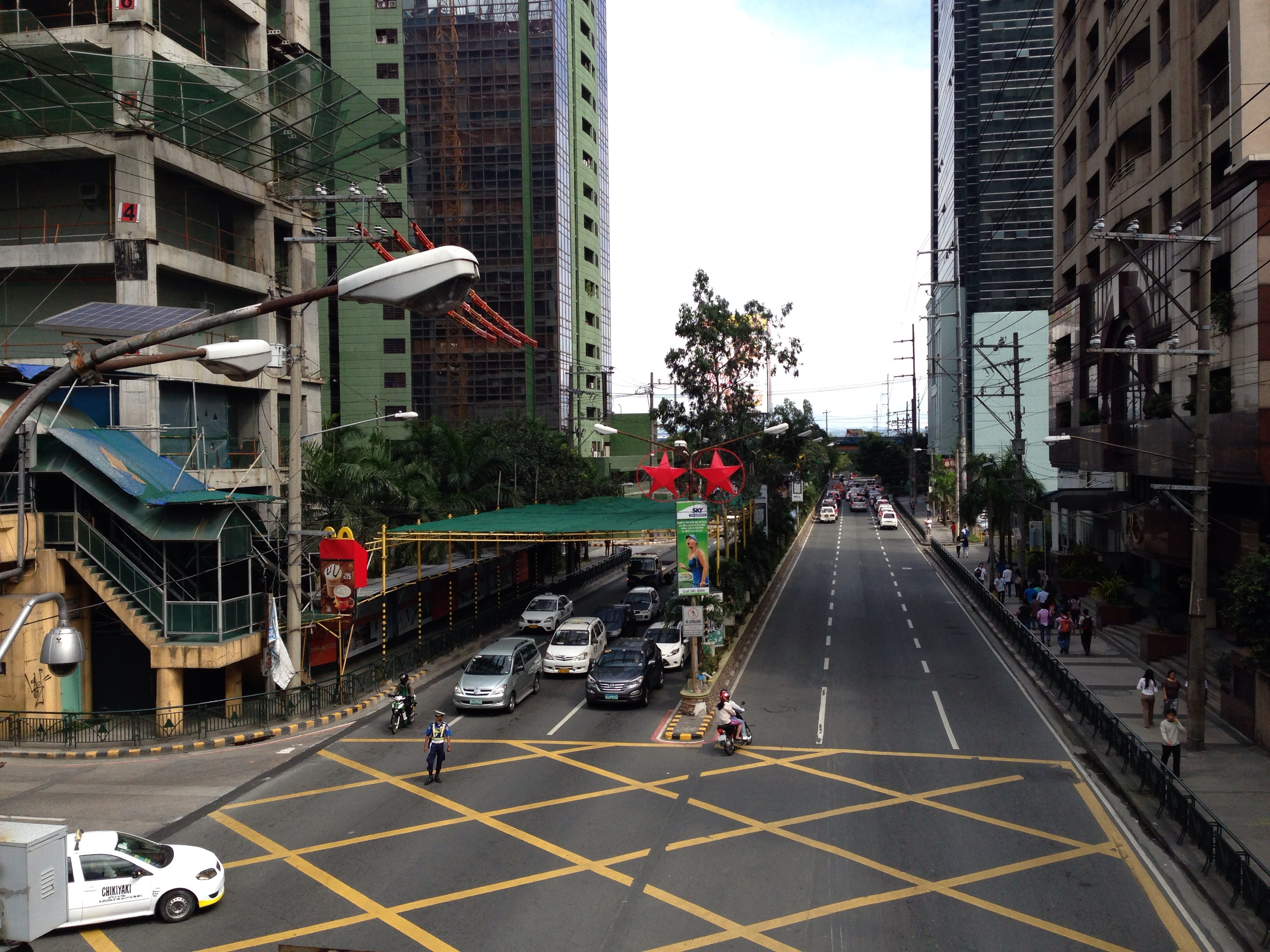 The intersection of Julia Vargas and F. Ortigas Jr. Road (formerly Emerald Avenue), Ortigas Center, Pasig, Manila